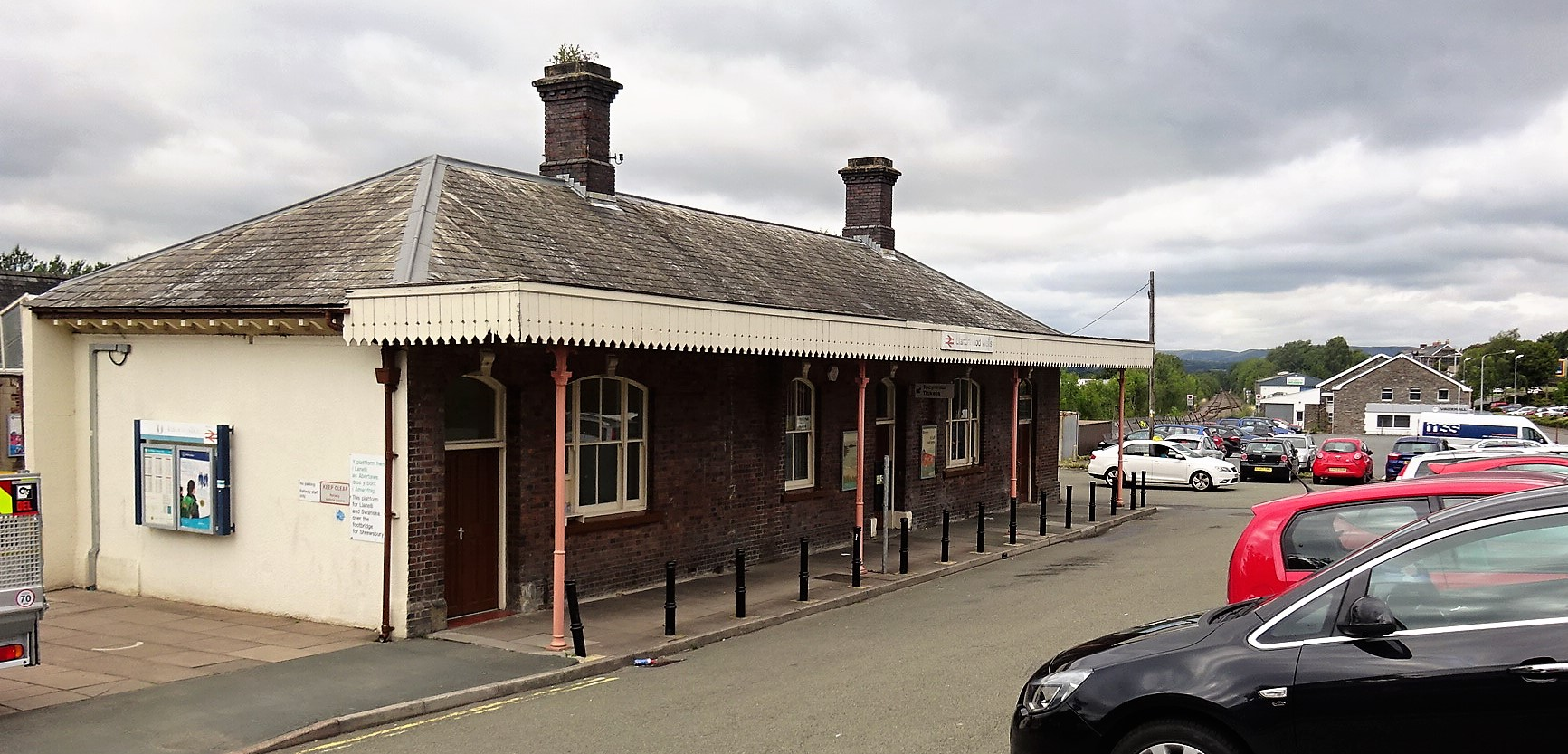 Llandrindod railway station building, Powys, Wales.